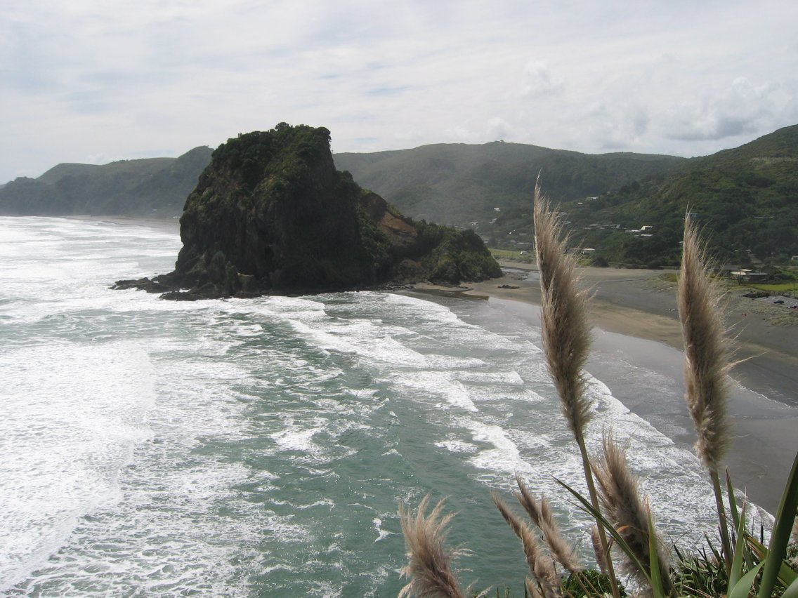 Looking across South Piha Beach to Lion Rock, Auckland, New Zealand. Photo taken 29 February 2004.